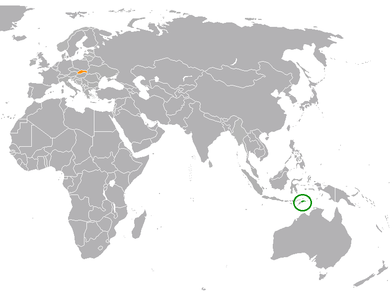 Map showing locations of both East Timor and Slovakia